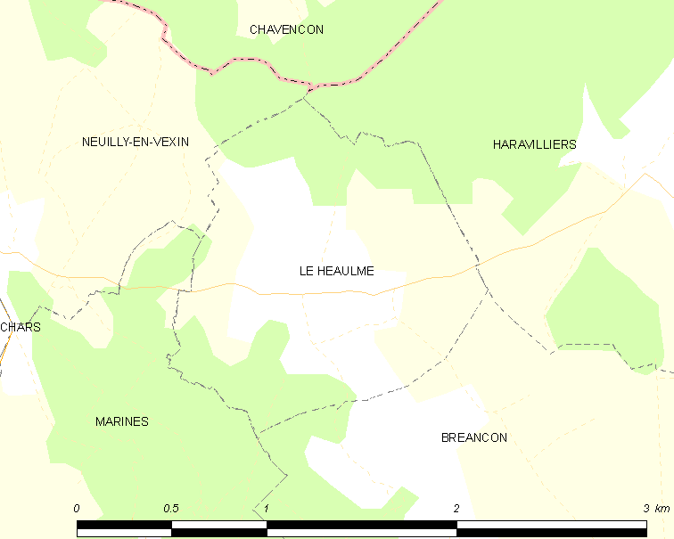 Map of French municipality Le Heaulme